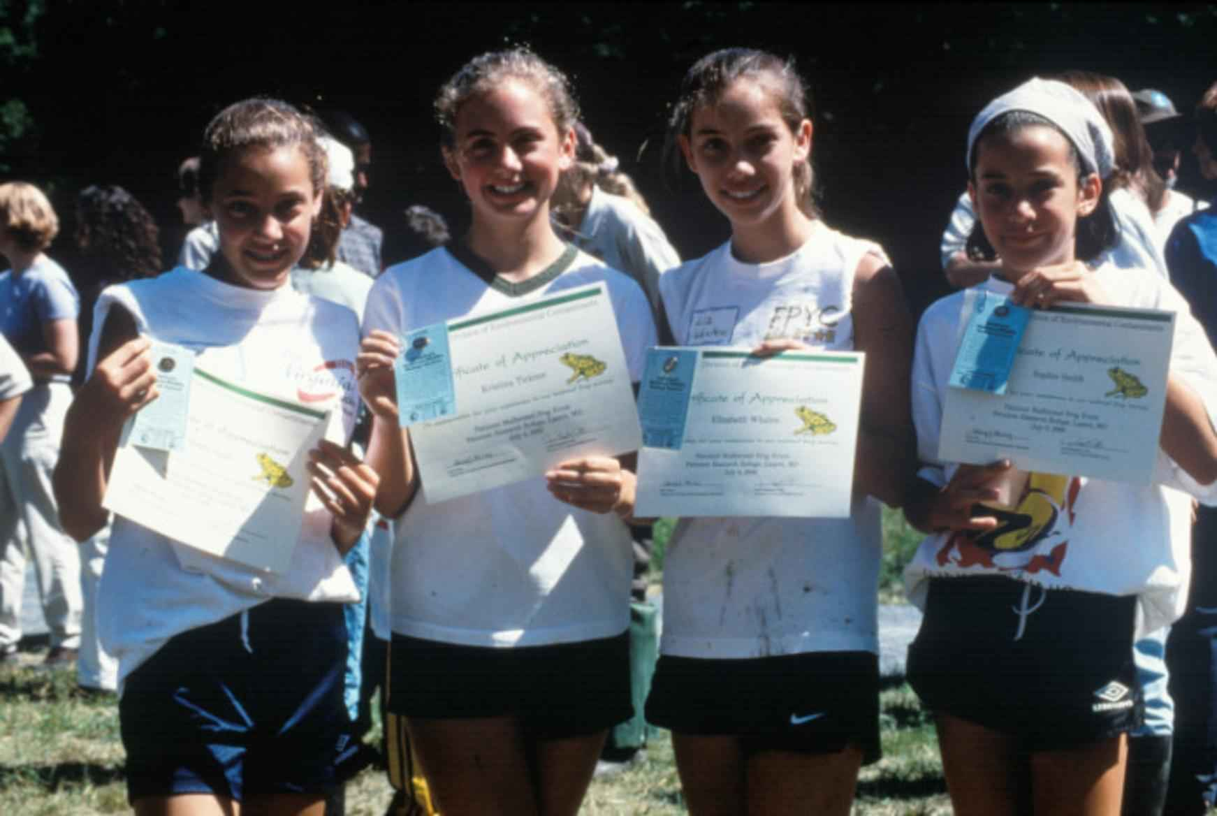 Image title: Girl scouts hold up their certifications of appreciation for participating Image from Public domain images website